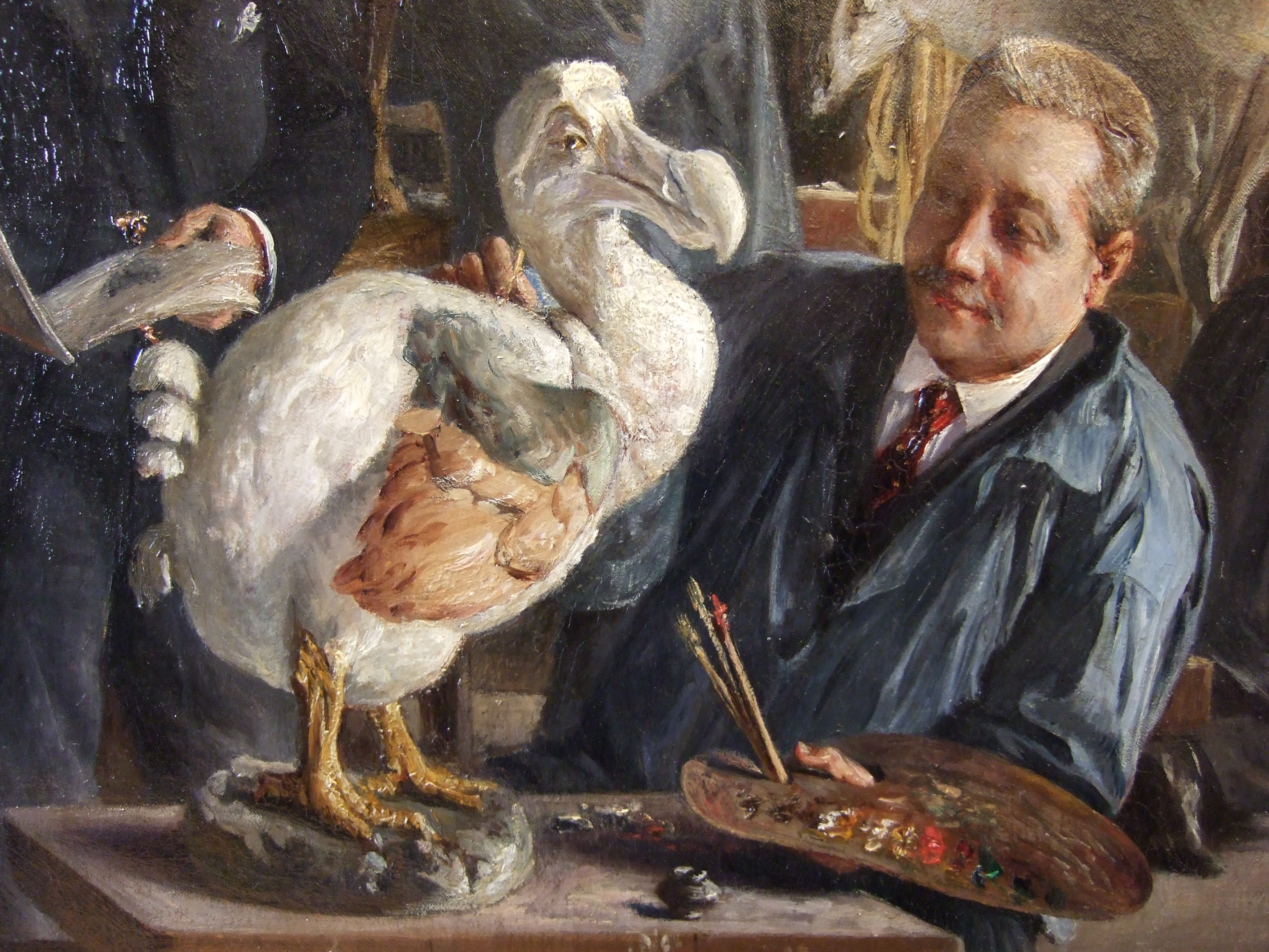 Reconstructing the dodo in the studio of Professor Émile Oustalet. Detail of painting at the Hôtel de Magny - Jardin des Plantes, Paris.